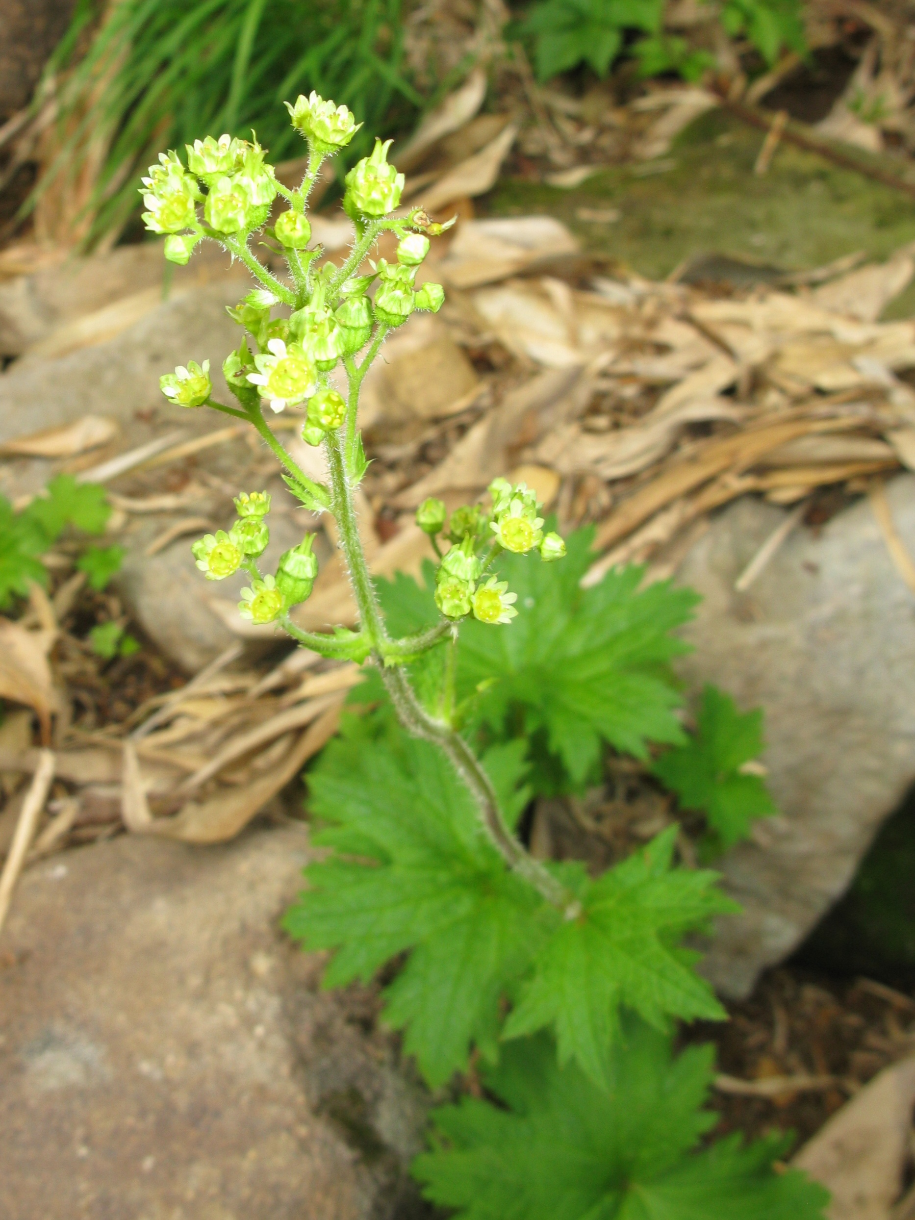 Boykinia lycoctonifolia, Mt. Hiuchigatake, Fukushima pref., Japan